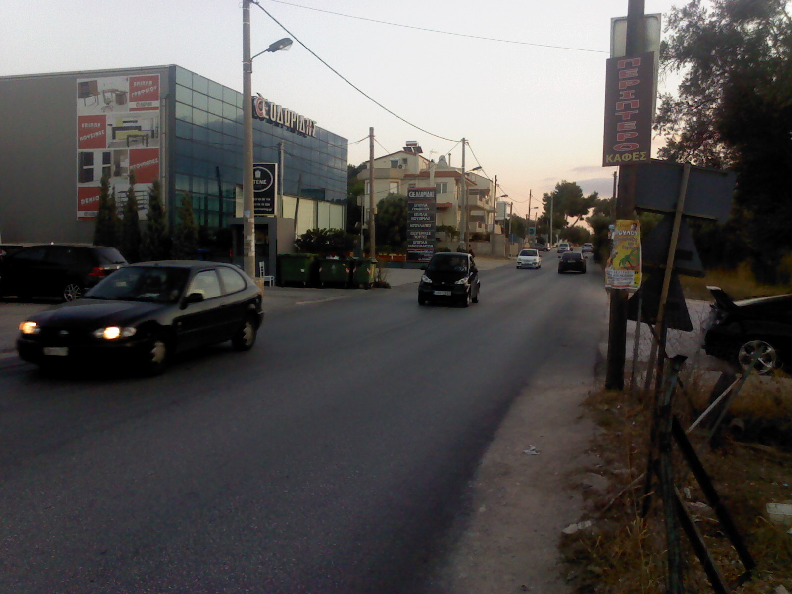 Odos Agiou Dimitriou Xristoupoli